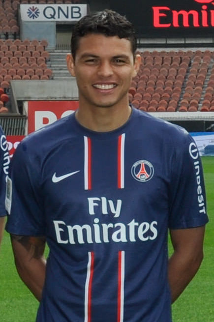 Javier Pastore, Thiago Silva, Zlatan Ibrahimovic, Blaise Matuidi with Emirates flight attendants, 2013 at Parc des Princes in Paris.